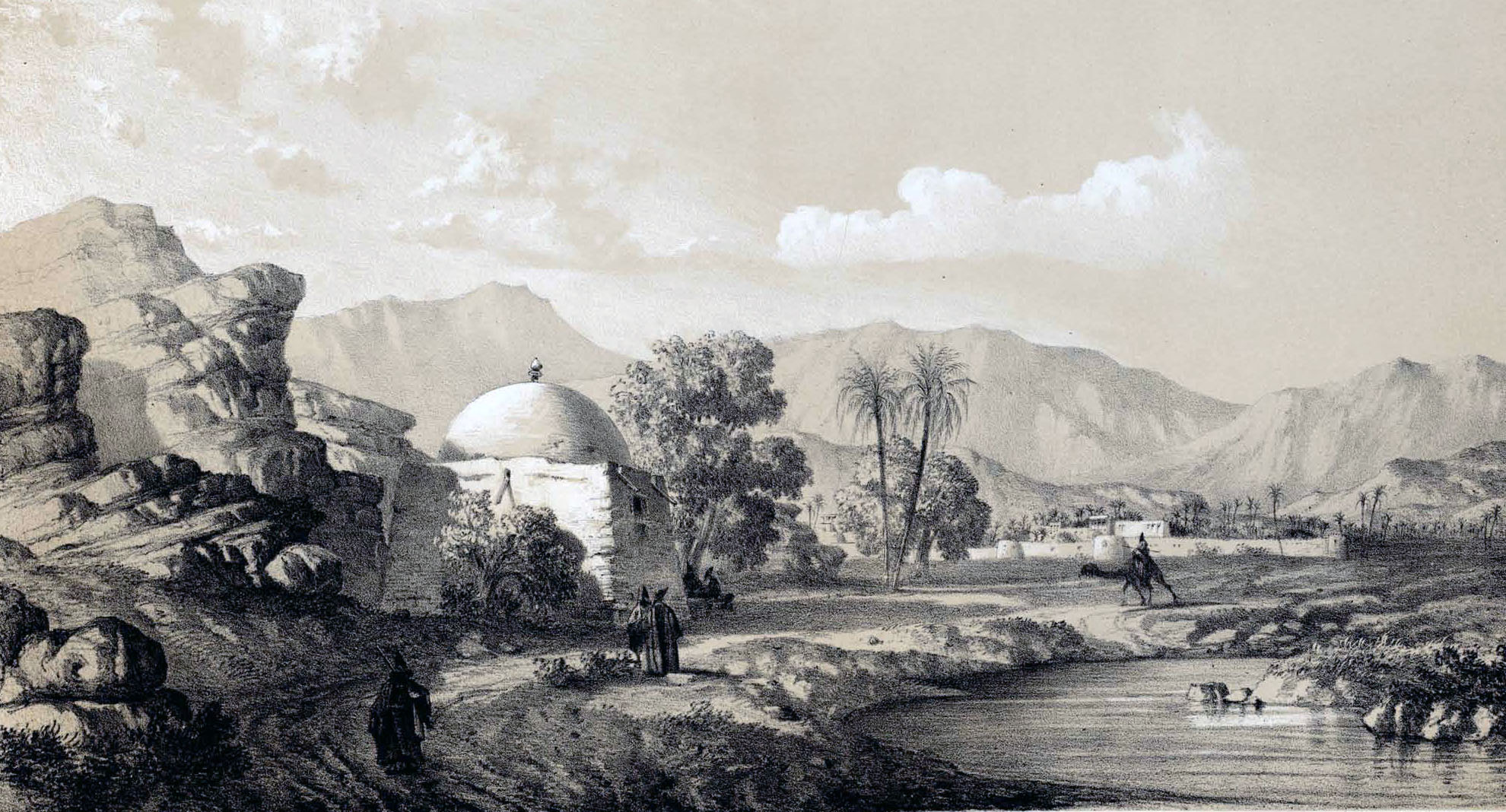 Darabgerd (Darab)